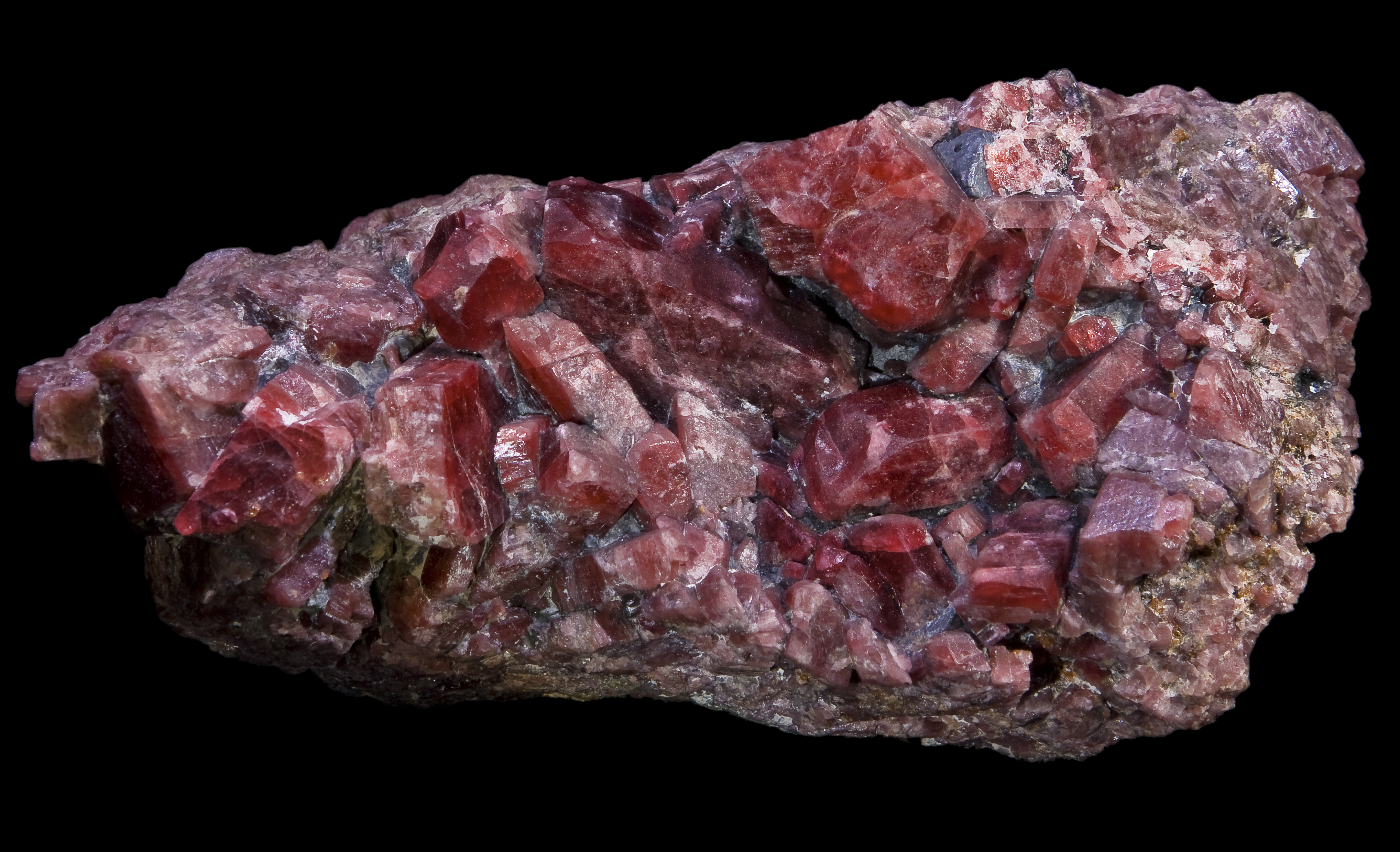 Rhodonite Locality : Broken Hill, Yancowinna County, New South Wales, Australia - 11.6cm